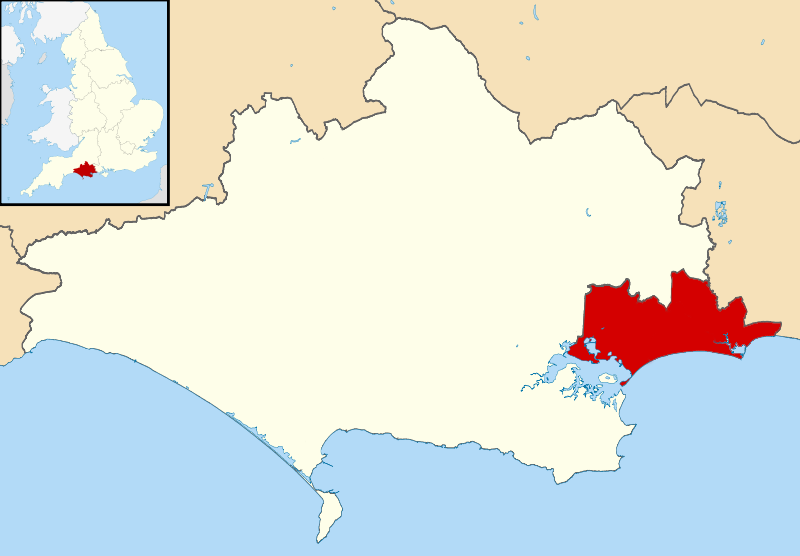 Bournemouth, Christchurch and Poole council area map